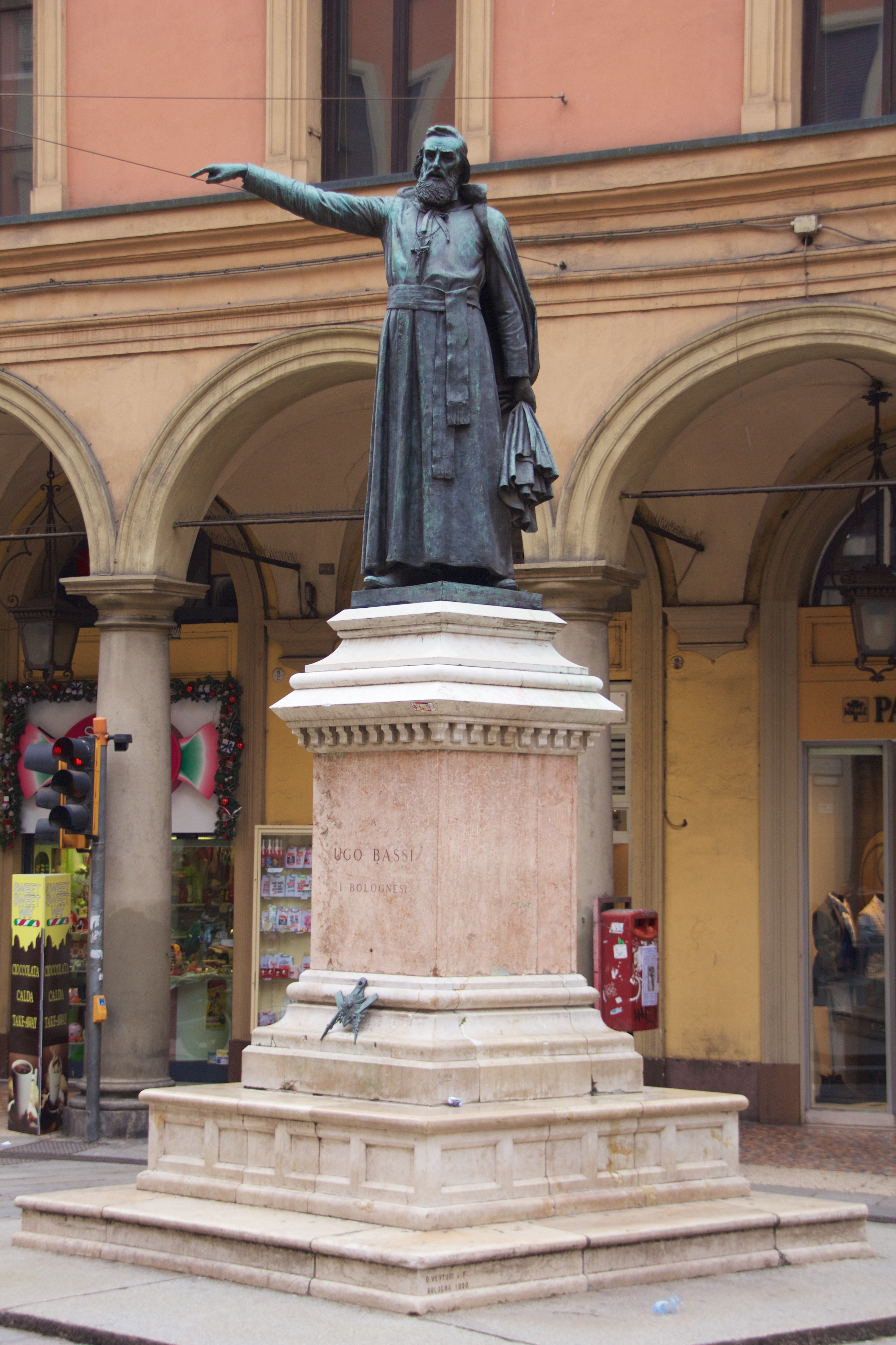 Ugo Bassi statue, Bologna, Italy